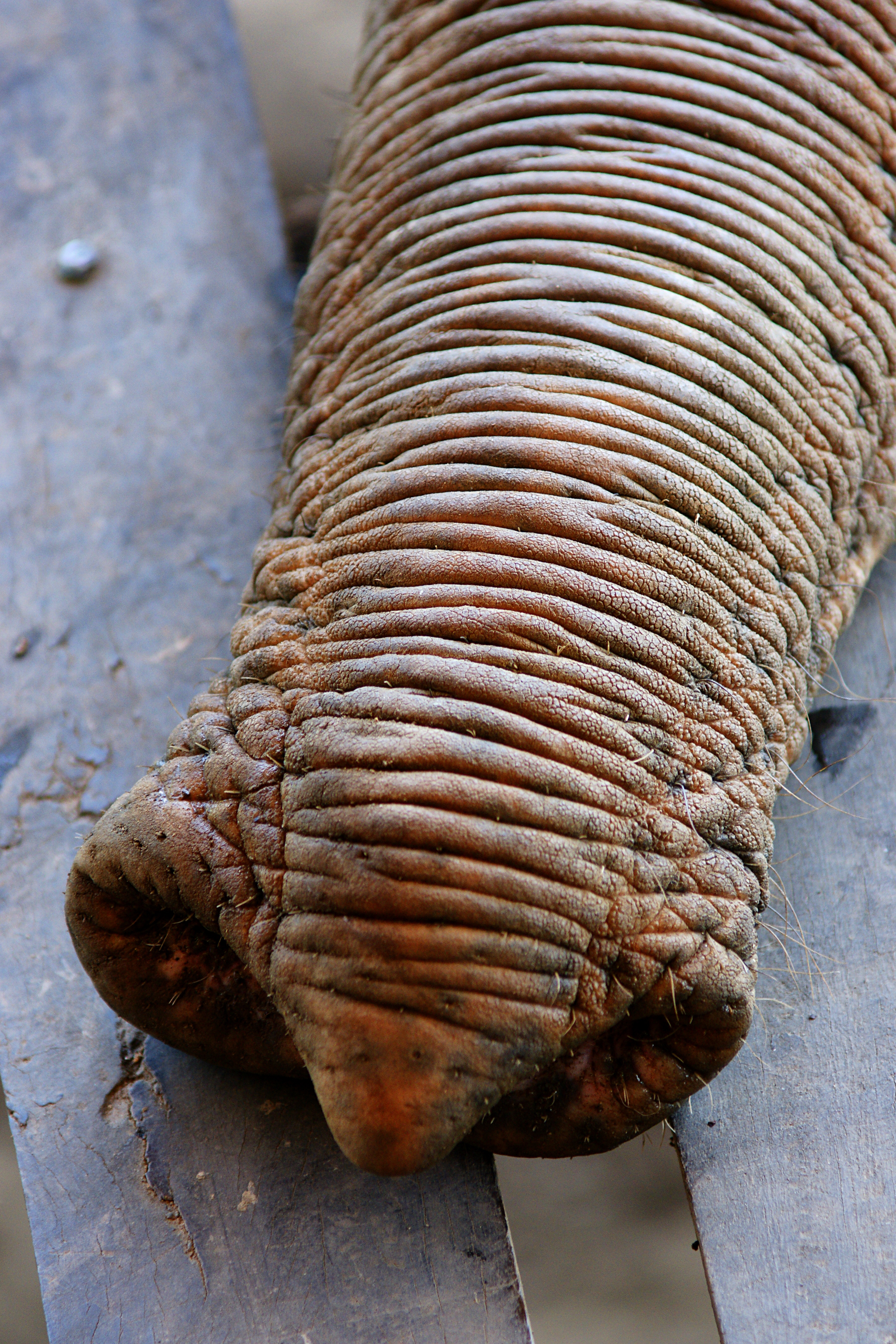 Closeup of the trunk of an Asian Elephant at Elephant Nature Park, Thailand